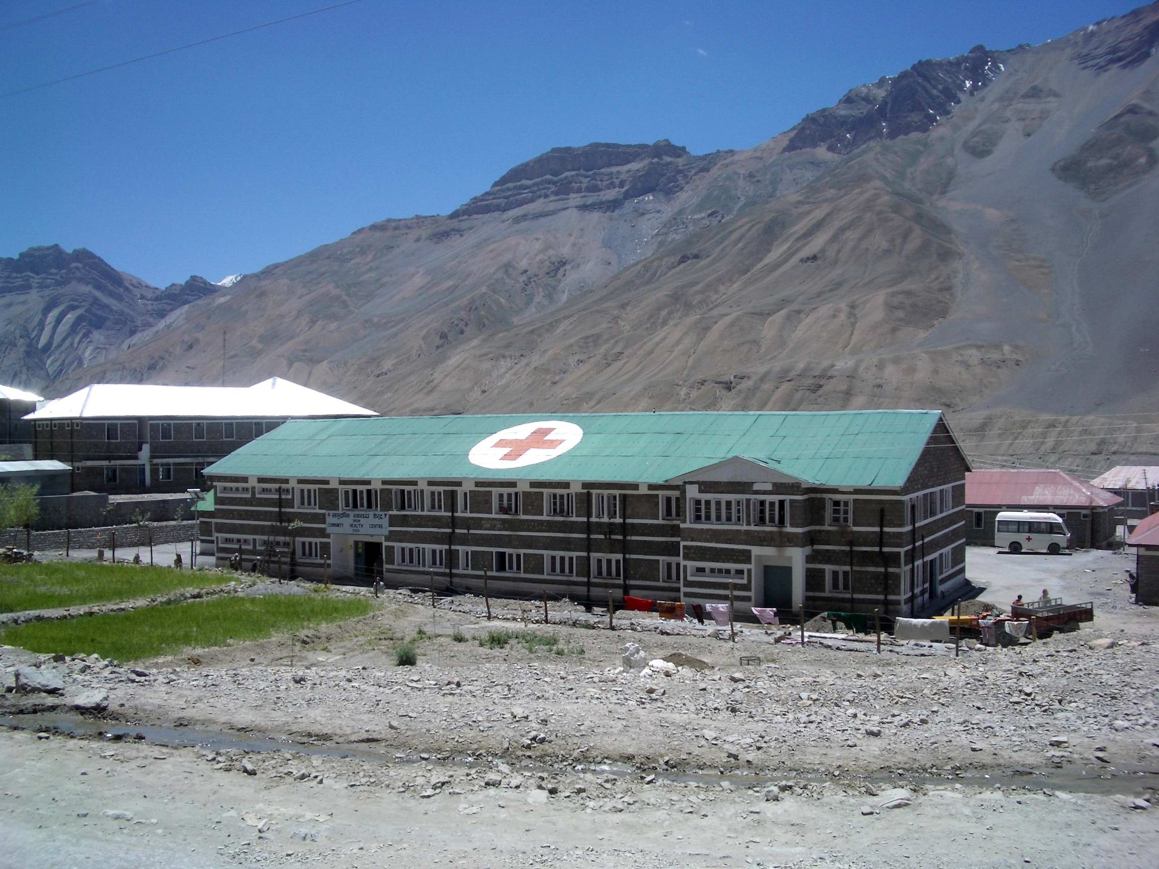 I took this photo myself in Kaza in 2004